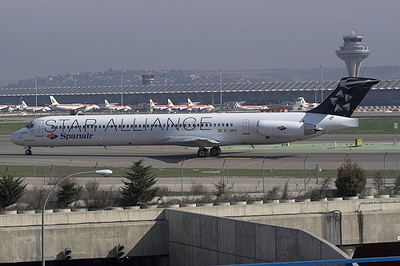 Spanair MD-82 EC-HFP "Sunbreeze" (crashed at Barajas Airport in Madrid, Spain on 20 August 2008)